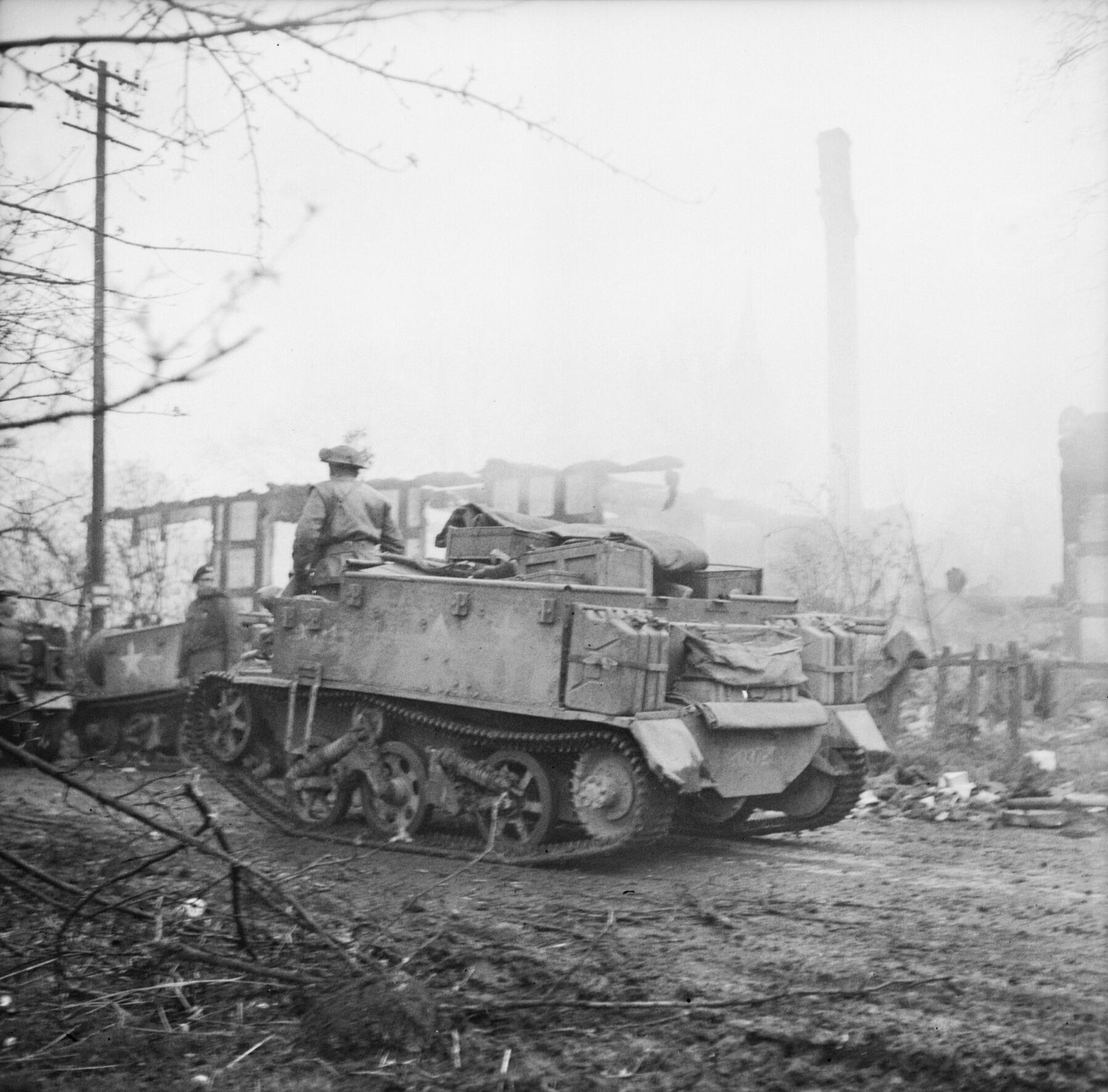 The British Army in North-west Europe 1944-45 Universal carriers of the 4th King's Shropshire Light Infantry, 11th Armoured Division, pass through the burning village of Levern, 4 April 1945.